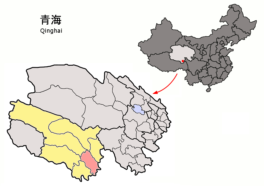 Location of Yushu County (pink) and Yushu Prefecture (yellow) within Qinghai province of China Map drawn in september 2007 using various sources, mainly : Qinghai province administrative regions GIS data: 1:1M, County level, 1990 Qinghai Counties map from "Plateau Perspectives" (the limits of some county-level subdivisions may not be accurate)